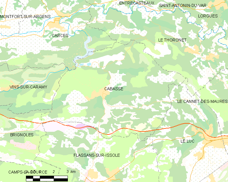 Map of French municipality Cabasse